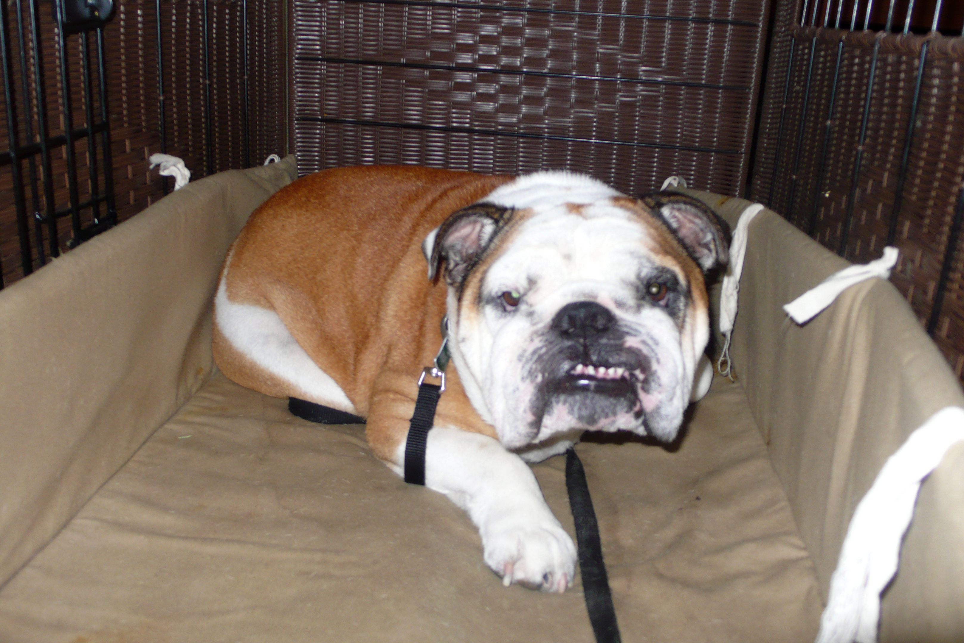 Jack (John S. Carroll) the Bulldog, the Georgetown University Hoyas mascot, in his kennel bed in Wolfington Hall Jesuit Residence